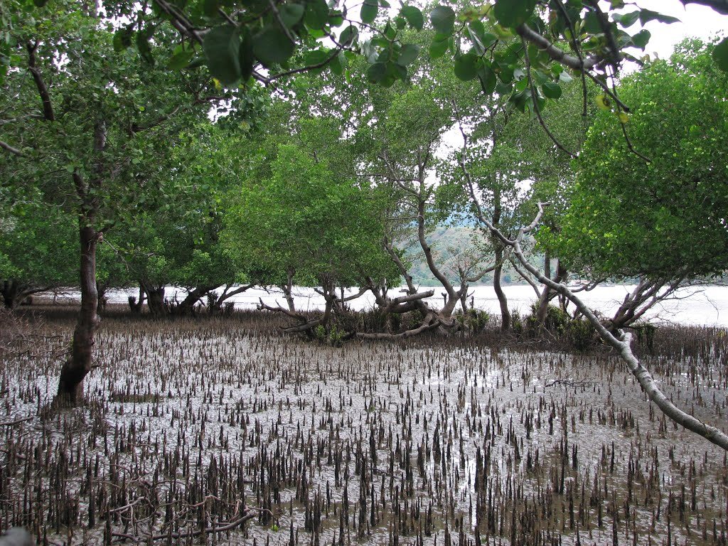 Pneumatophore aerial roots in mature mangrove and mudflats at Tibar, and extensive mature mangrove patch (8-10 m tall) Dili Timor-Leste